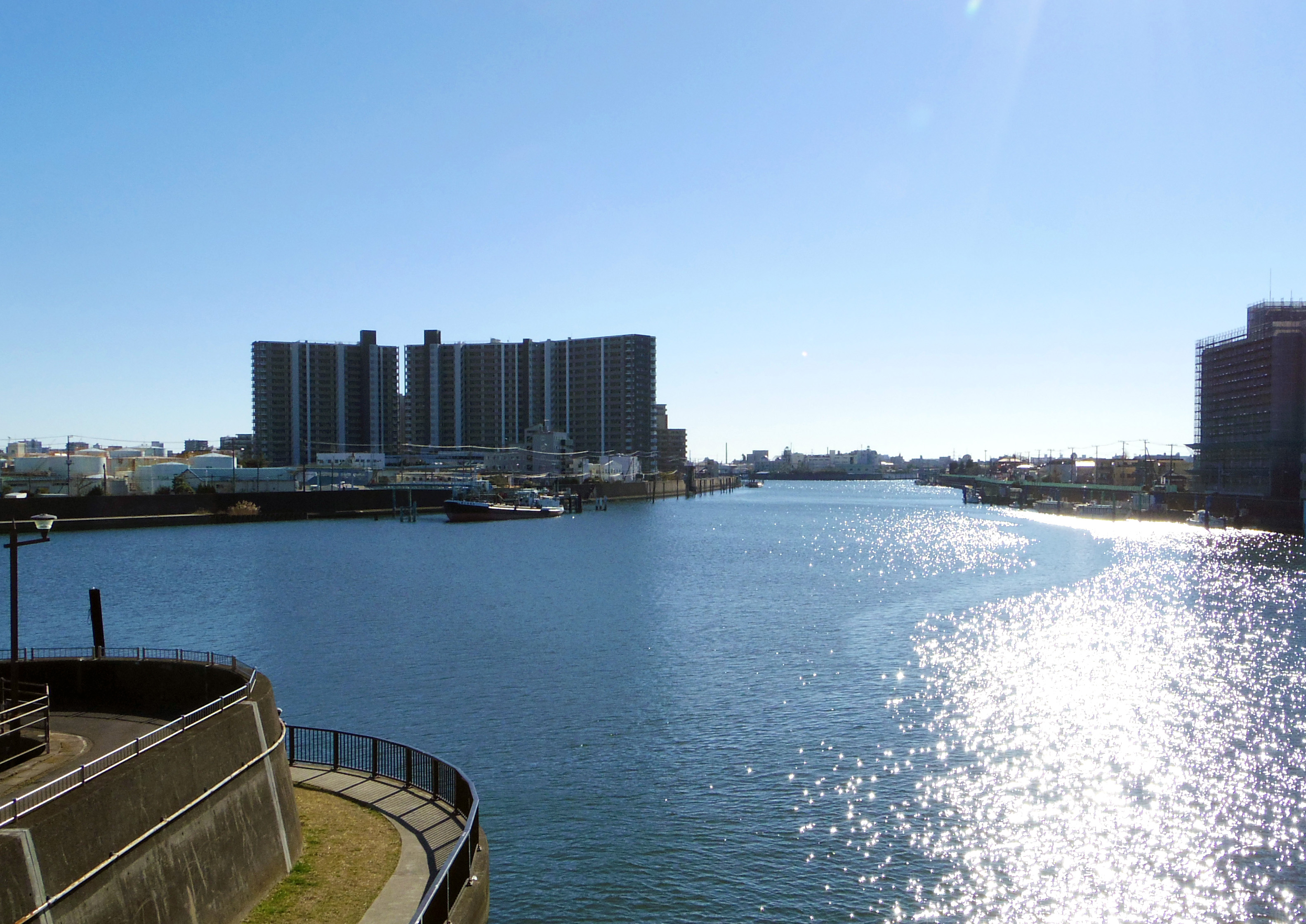 The junction of the Kyū-Edogawa river (left side) and the Shin-Nakagawa river(right side)